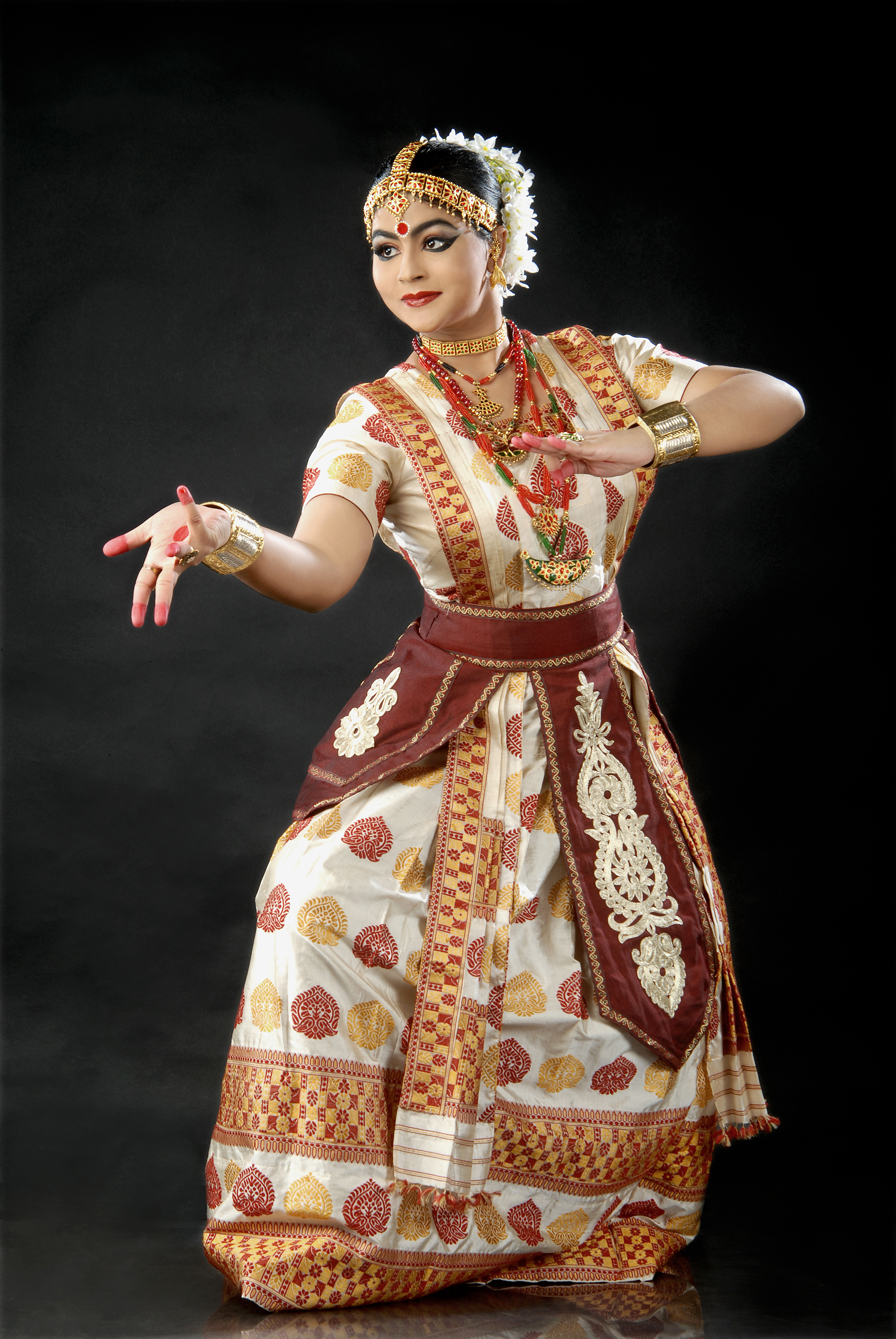 Sattriya Dance has its origin in the Sattras of Assam developed by Mahapurush Srimanta Sankardev.